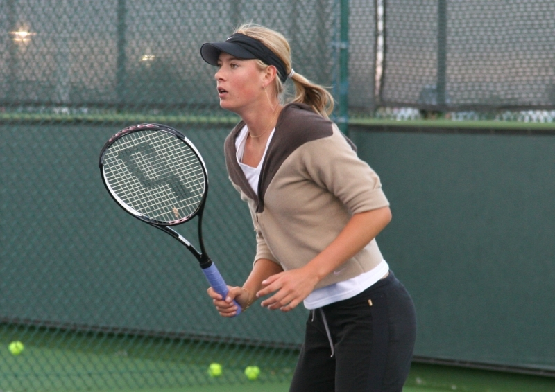 Maria Sharapova practicing in Indian Wells, California, USA, on Sunday March 12, 2006, on a side court.